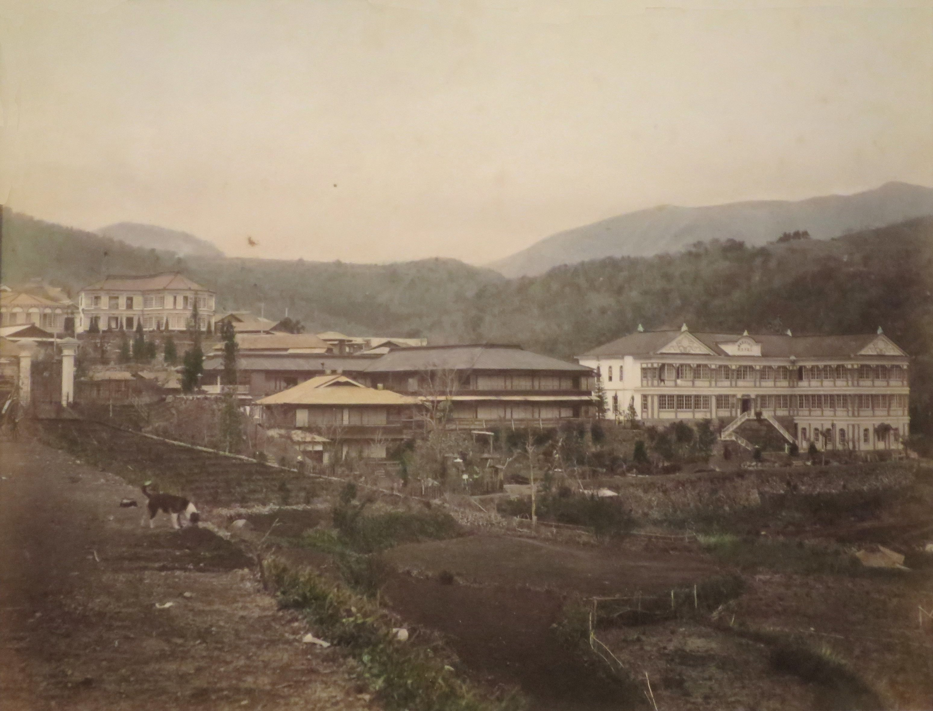 No. 369A: Miyanoshita by Tamamura Kozaburo, c 1880s, albumen on paper with hand-tinting, Honolulu Museum of Art accession 2014-63-24